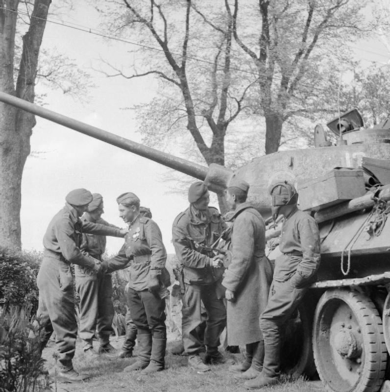 The British Army in North-west Europe 1944-45 Men of 6th Airborne Division greet the crew of a Russian T-34/85 tank during the link-up of British and Soviet forces near Wismar on the Baltic coast, 3 May 1945.